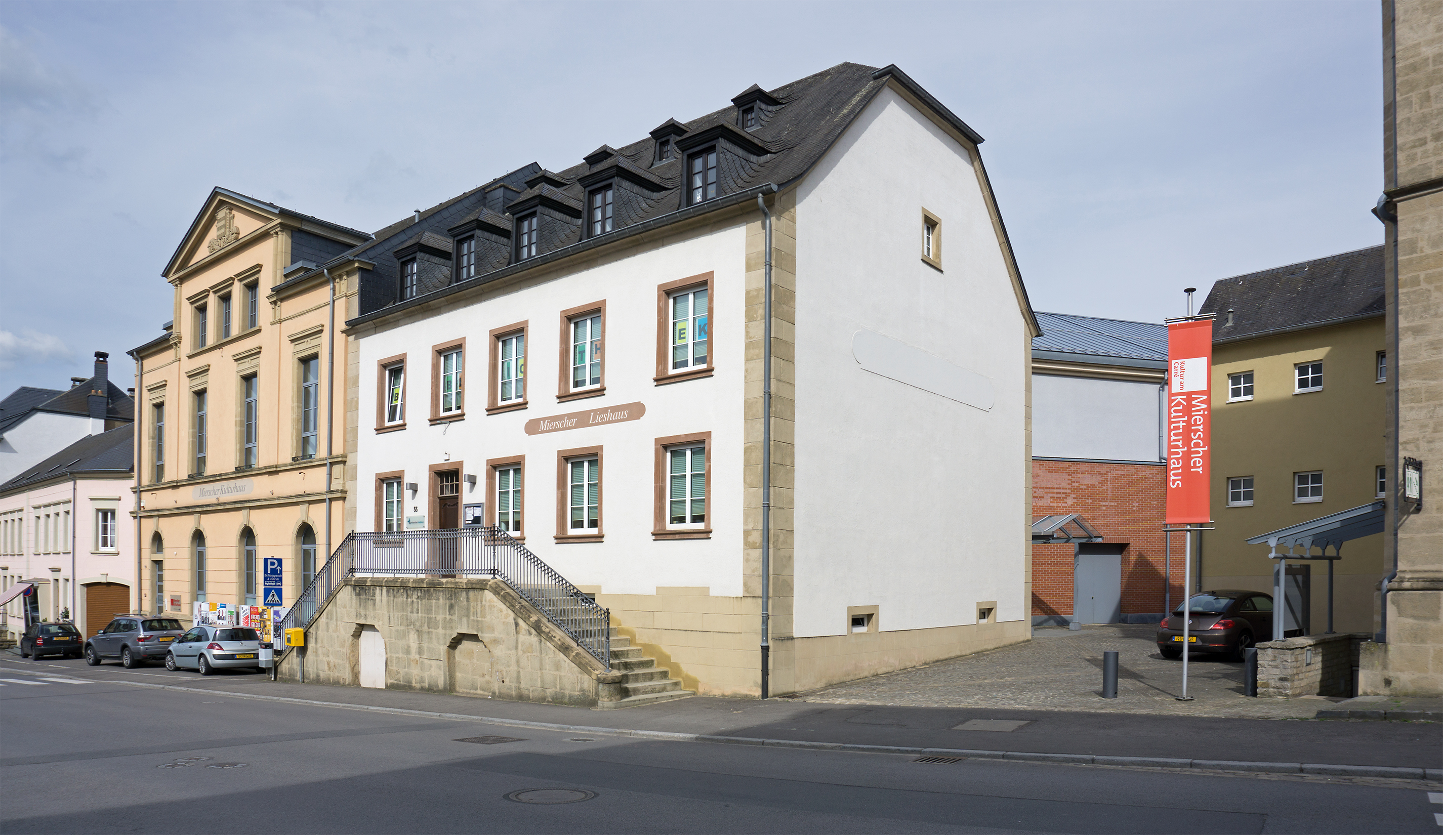 Public library and cultural center in Mersch